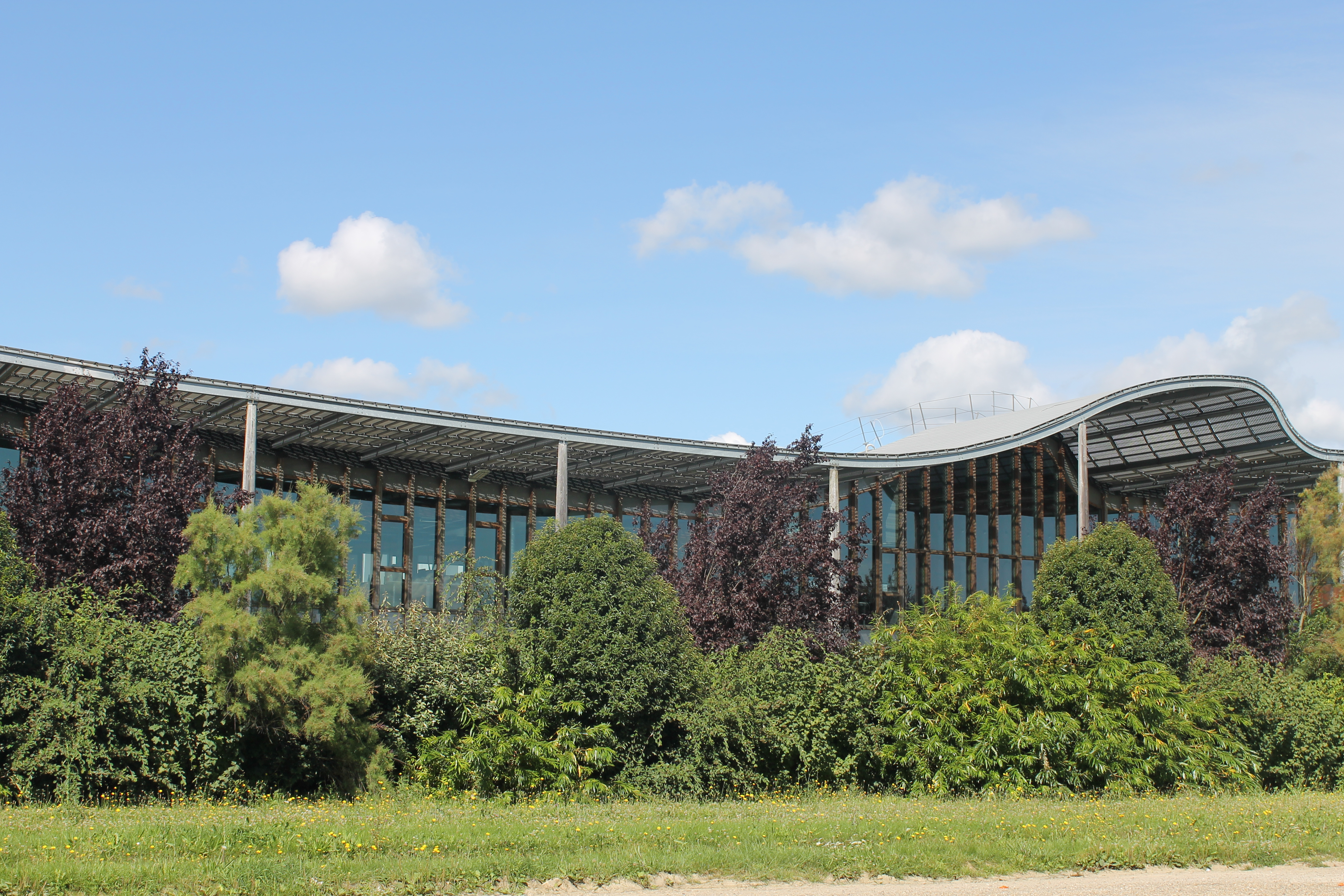 The research center of Danone in Saclay, France (Paris-Saclay business cluster).